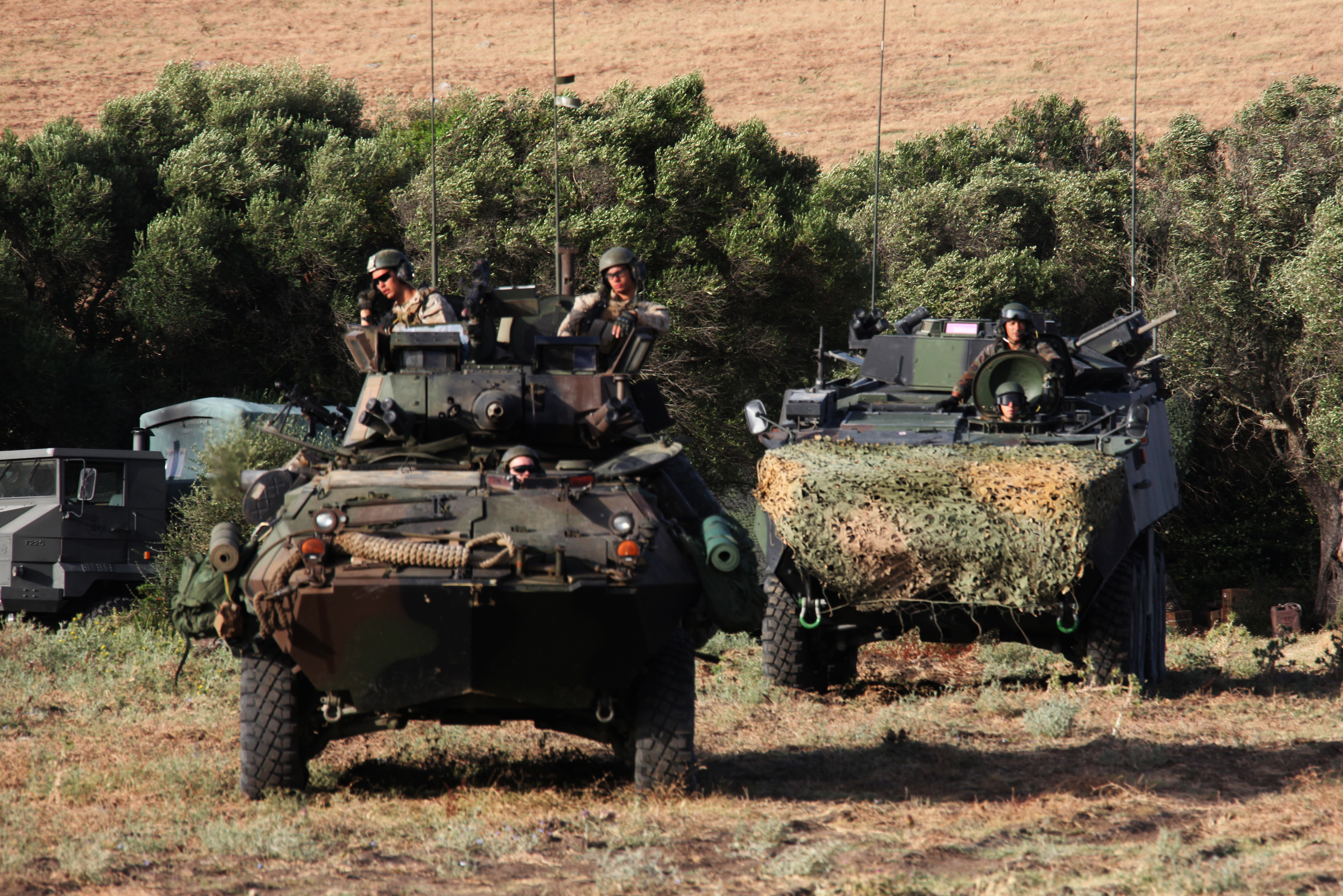 A light-armored vehicle, left, from Light Armored Reconnaissance Platoon, Weapons Company, Battalion Landing Team, 2nd Battalion, 2nd Marine Regiment, 22nd Marine Expeditionary Unit, and a Spanish Piranha, right, with Reconnaissance Platoon, 3rd Mechanized Landing Battalion, practice immediate action drills for improvised explosive devices aboard Sierra Del Retin, Spain, June 25, 2011. The training was part of the Spanish Amphibious Bilateral Exercise, a 10-day exercise where Marines from 22nd MEU trained alongside Spanish Marines to build relations and increase interoperability with the Spanish. The Marines and sailors of the 22nd MEU are currently deployed with Amphibious Squadron 6 aboard the USS Bataan Amphibious Ready Group serving as a flexible, formidable and potent force who continues to train and improve their capability to operate as a cohesive and effective Marine Air Ground Task Force. The 22nd MEU is a multi-mission, capable force comprised of an Aviation Combat Element, Marine Medium Tilt Rotor Squadron 263 (Reinforced); a Logistics Combat Element, Combat Logistics Battalion 22; a Ground Combat Element, Battalion Landing Team, 2nd Battalion, 2nd Marine Regiment; and its Combat Element.